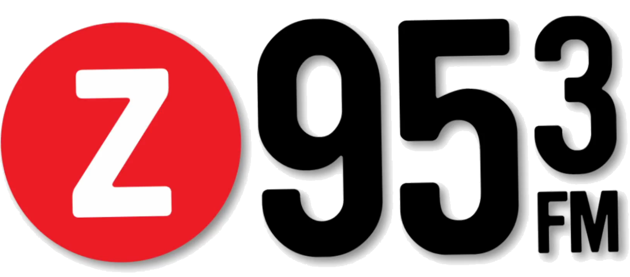 Z953 logo, 2014